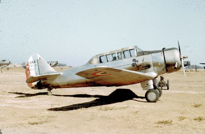 French Air Force NAA-64 in service after World War 2, in French controlled Morocco, with a replacement rudder from the similar and far more numerous NA-57. The NA-64 can be identified by the metal skinned fuselage, and the fin being further aft in relation to the horizontal stabilizers. This was one of 2 examples that were used in this region, and they were the last operational NA-64s anywhere, the Canadian examples having been retired and the German ones destroyed.